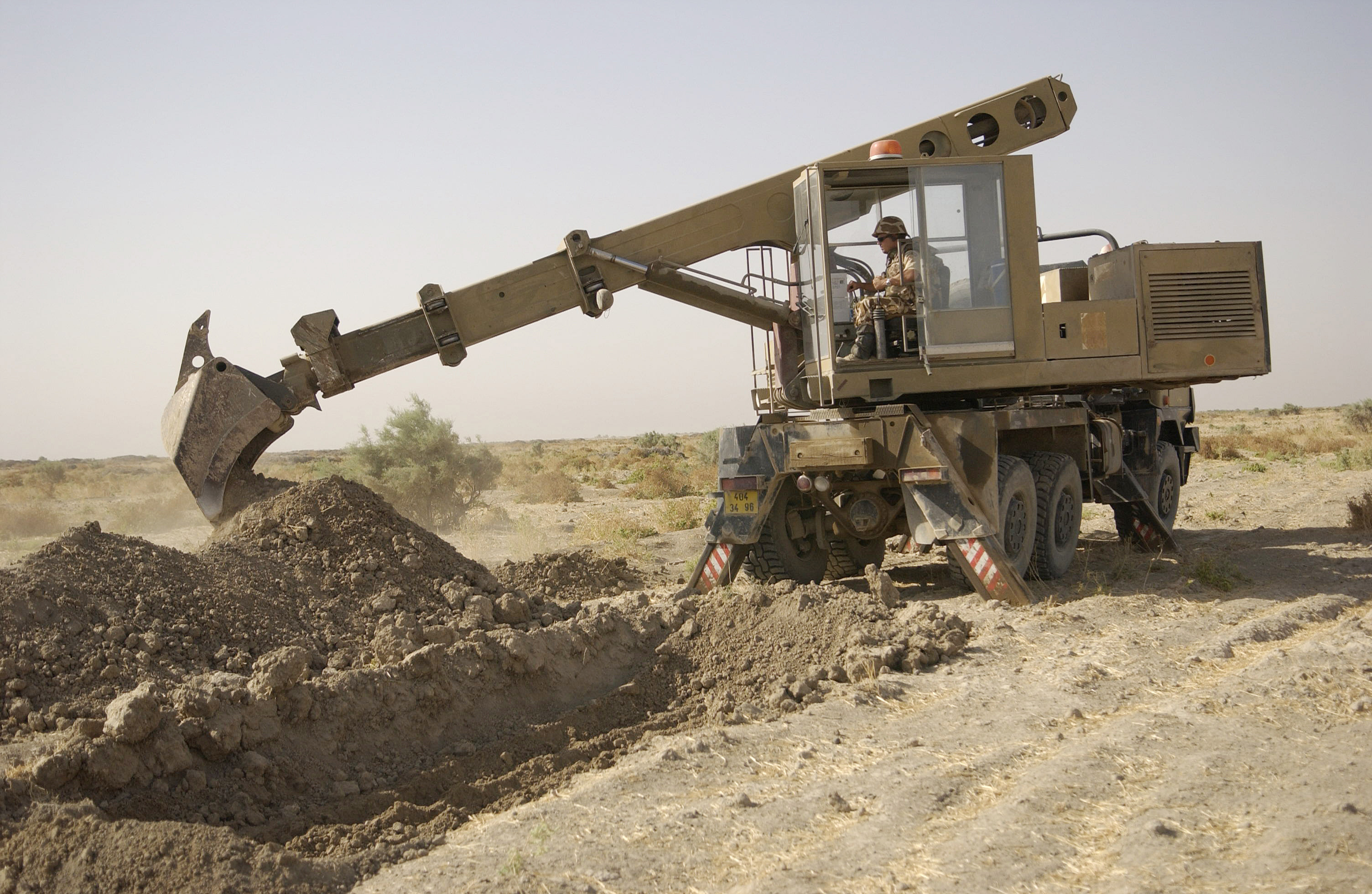 A Slovak army engineer operates equipment to dig a hole that will be used to detonate unexploded ordnance (UXO) at Camp Echo, Iraq, September 21, 2006. The Slovakian army engineering unit is responsible to locate, identify and dispose of UXO located in the area to ensure the safety of Iraqi citizens and to keep them out of the hands of insurgents. This is a UDS multi-purpose excavator on a Tatra T 815 truck.